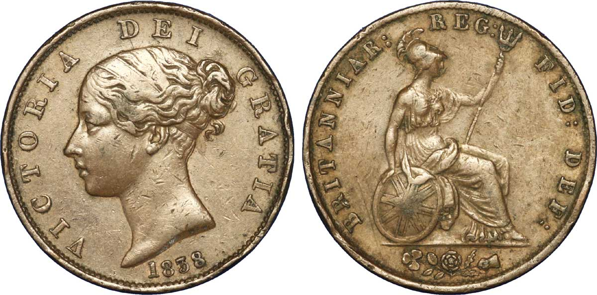 Un demi penny à l'effigie de la jeune reine Victoria, 1838